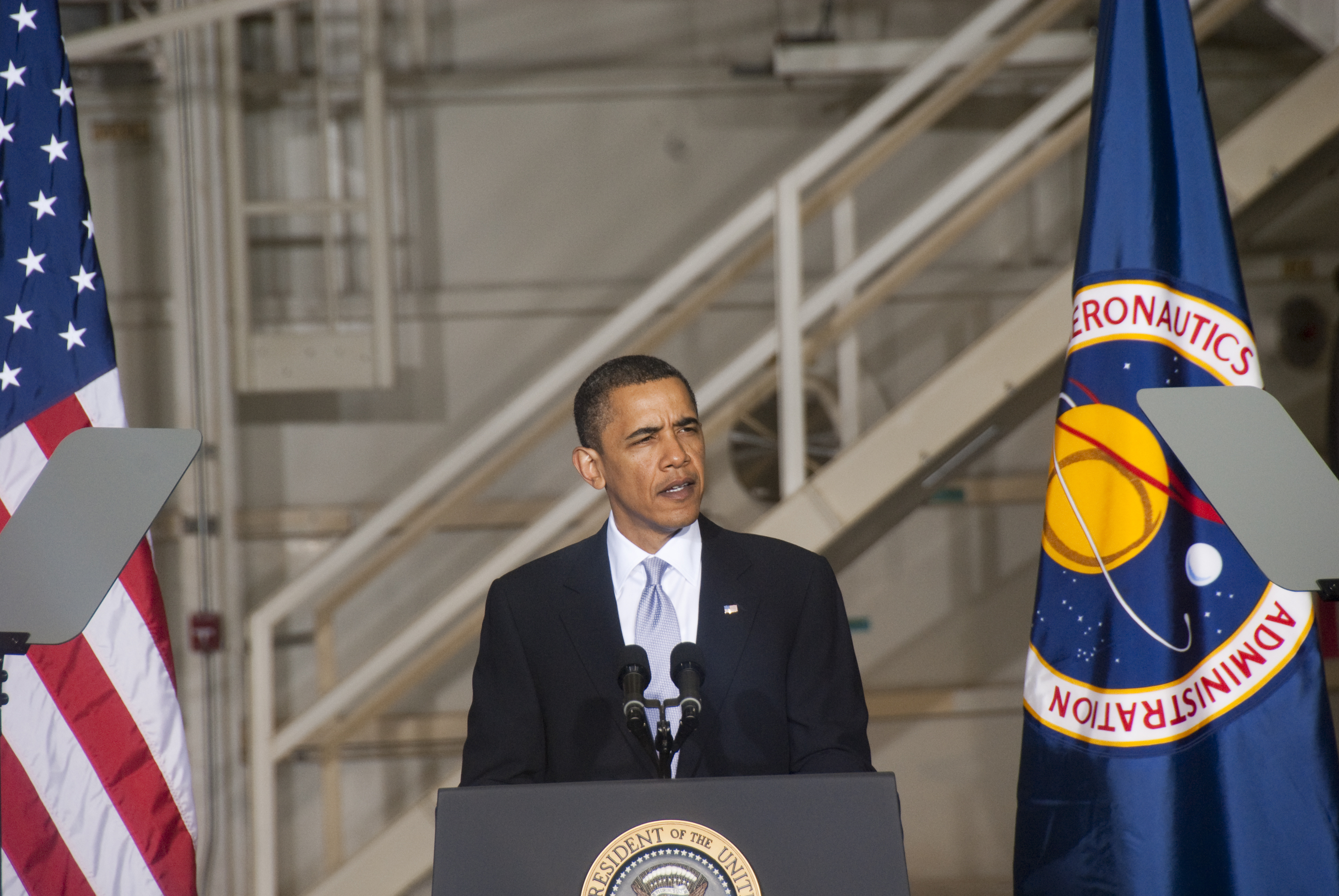 In the Operations and Checkout Building at NASA's Kennedy Space Center in Florida, President Barack Obama addresses the participants of the Conference on the American Space Program for the 21st Century. In his remarks, he outlined the new course his administration is charting for NASA and the future of U.S. leadership in human spaceflight.